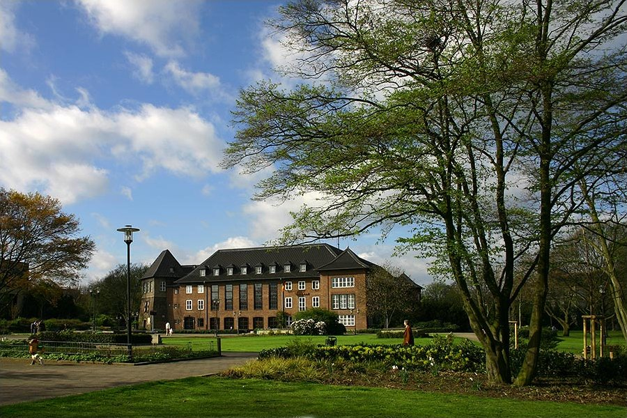 Town hall of Dinslaken, Germany